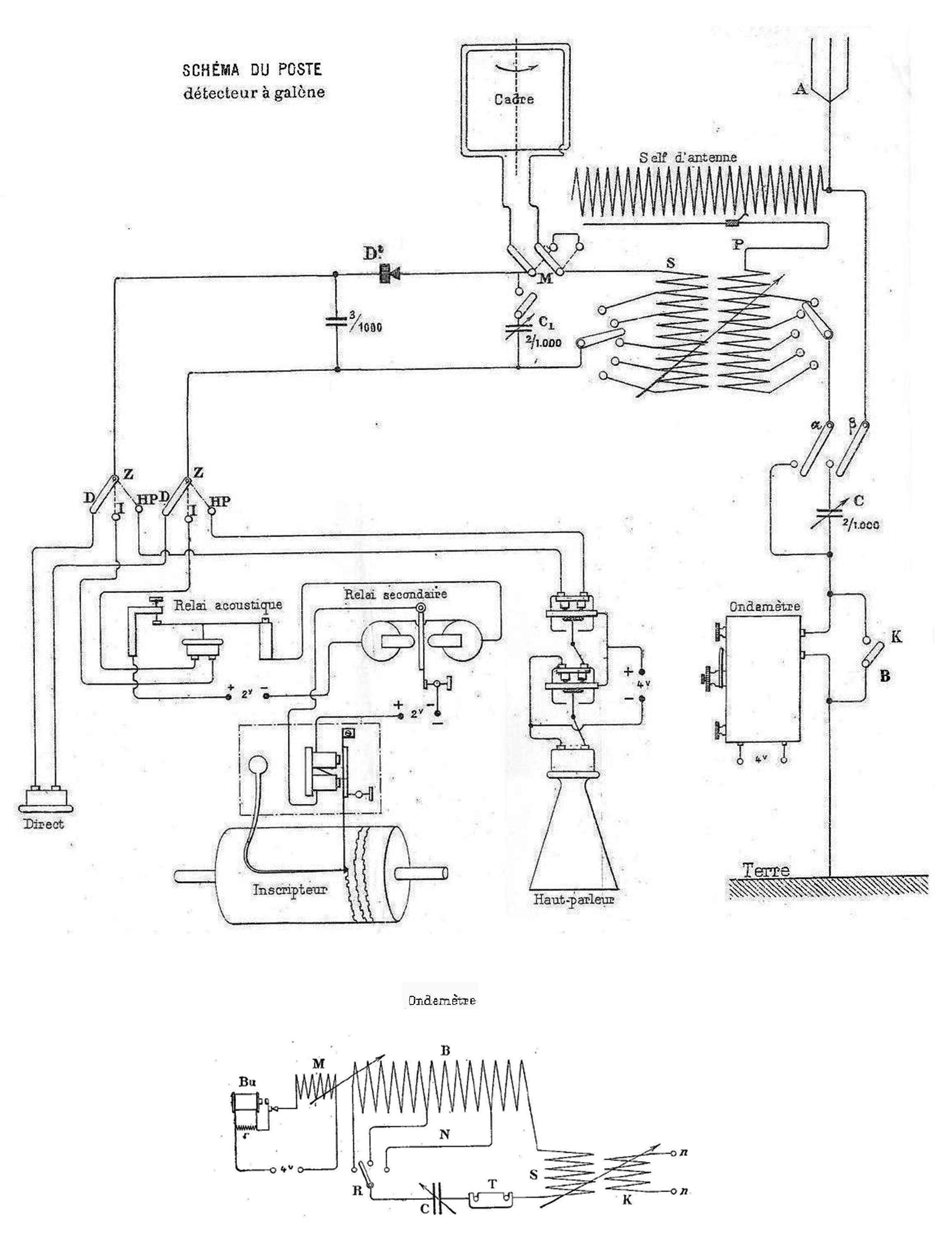 Poste has crystal for the listening of the hectometric band and the kilometric band; amplifier BF is in two stages in cascade (ear-phone actuating a microphone with coal by the same membrane). The wavemeter is used for the adjustment of the poste/antenne. The ticker is replaced by the slightly coupled wavemeter which heterodyne receiver the carrying one (and a pretence of reaction gives). This station has crystal gives an indication of the technique radioelectricity about 1914. Used for: aviation and maritime the